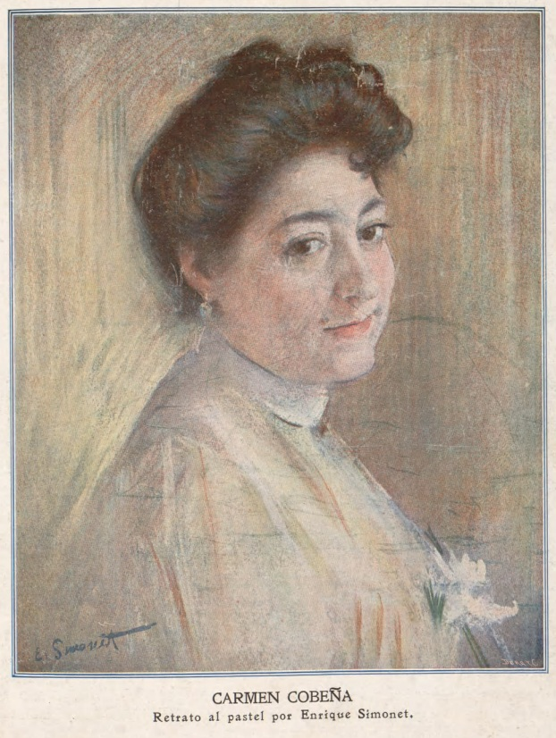 Portrait of Carmen Cobeña.